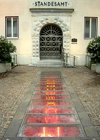 Installation vor dem Standesamt in Villach/Art installation in front of the municipal registry office in Villach 13:47, 4. Sep 2004 Joooo 341 x 478 (38803 Byte)